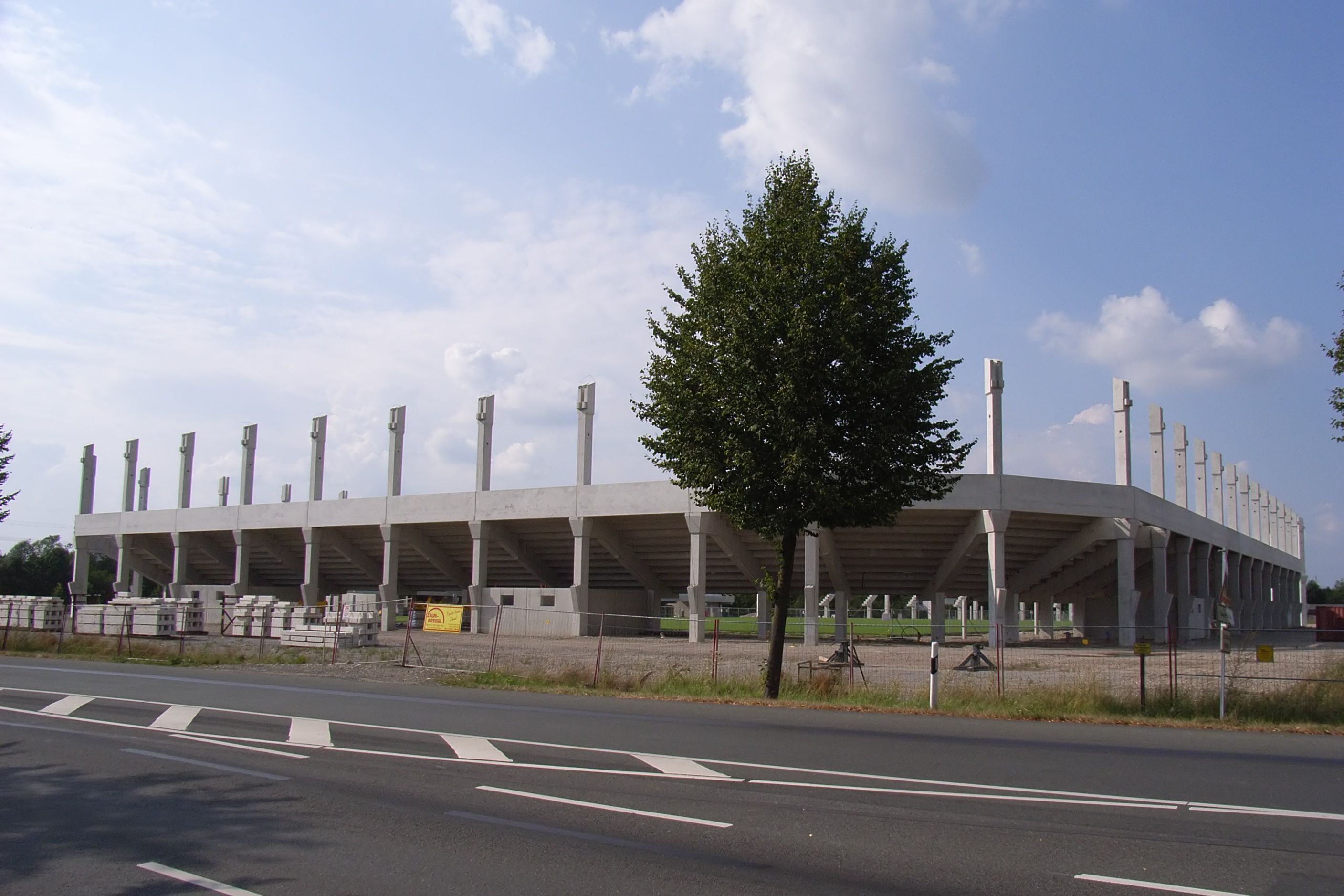 Paderborn, Germany: paragon arena (Since 2009: Energieteam Arena), partly finished. The photo was taken during the building freeze between november 2005 and november 2007.